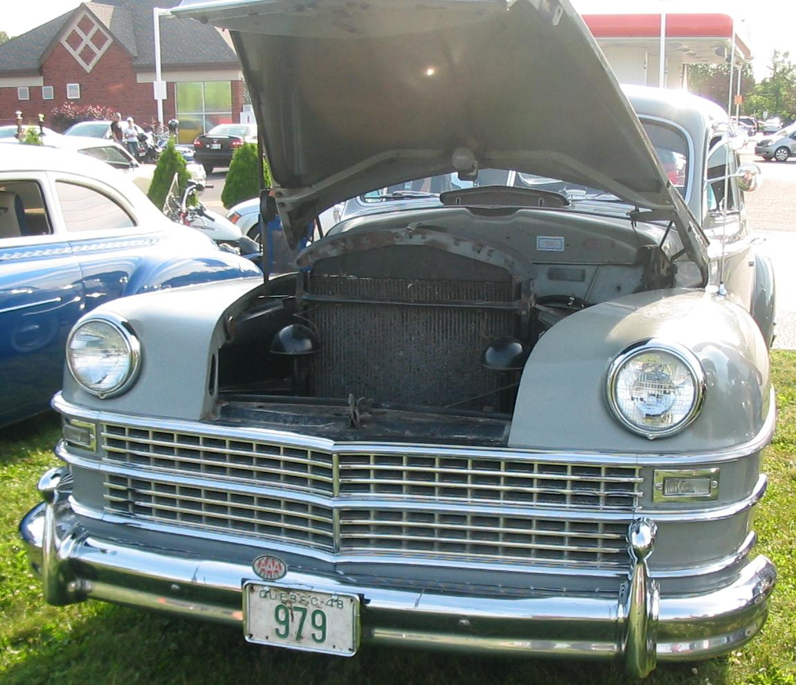 1948 Chrysler photographed in Mont St. Hilaire, Quebec, Canada at the Auto classique VAQ Mont St-Hilaire.